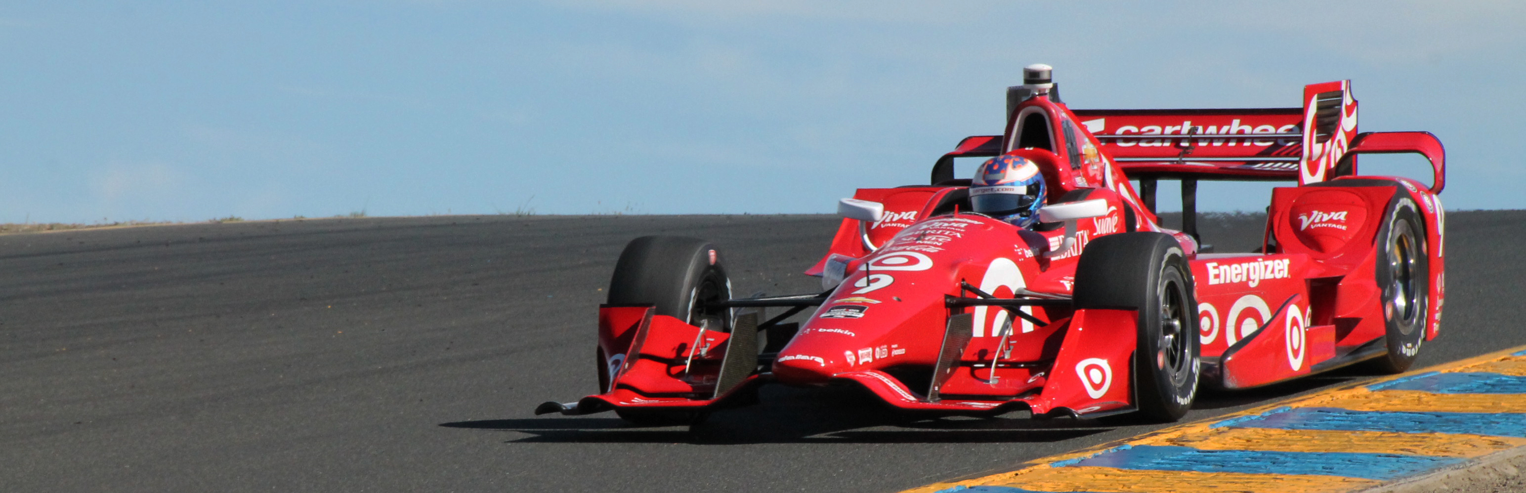 Scott Dixon at the 2015 GoPro Grand Prix in Sonoma, California